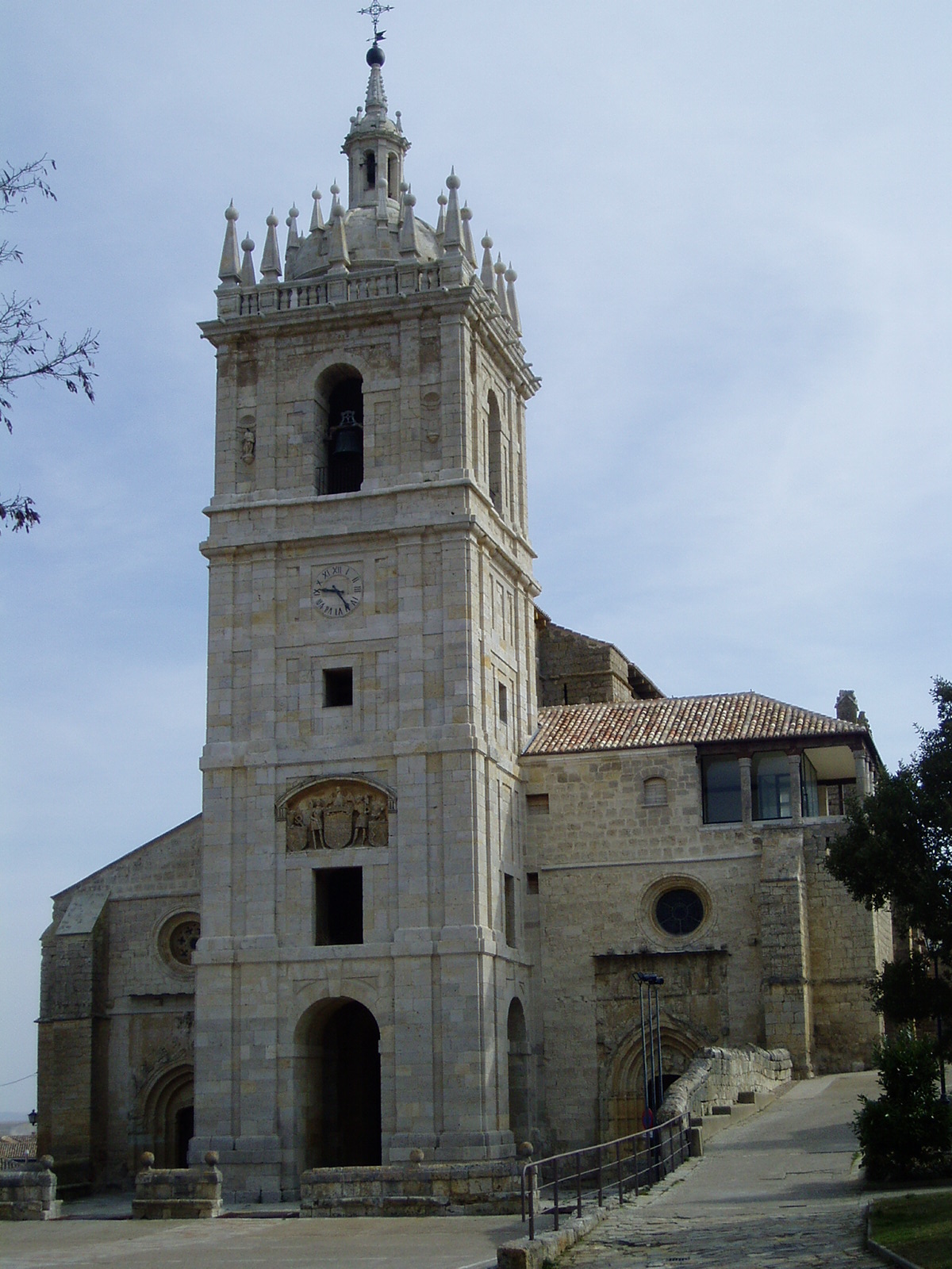 Front of the church of San Hipólito el Real of Támara de Campos, Palencia.